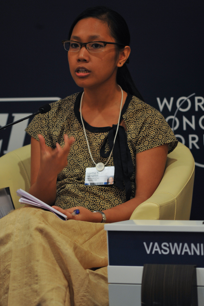 Agatha K Sangma, Minister of State for Rural Development of India, during the Female Leadership Factor session at the World Economic Forum's India Economic Summit 2010 held in New Delhi, 14-16 November 2010.